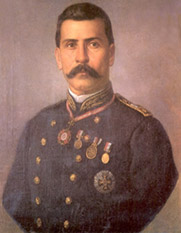 Portrait of Porfirio Díaz (1867), later President/dictator of México.